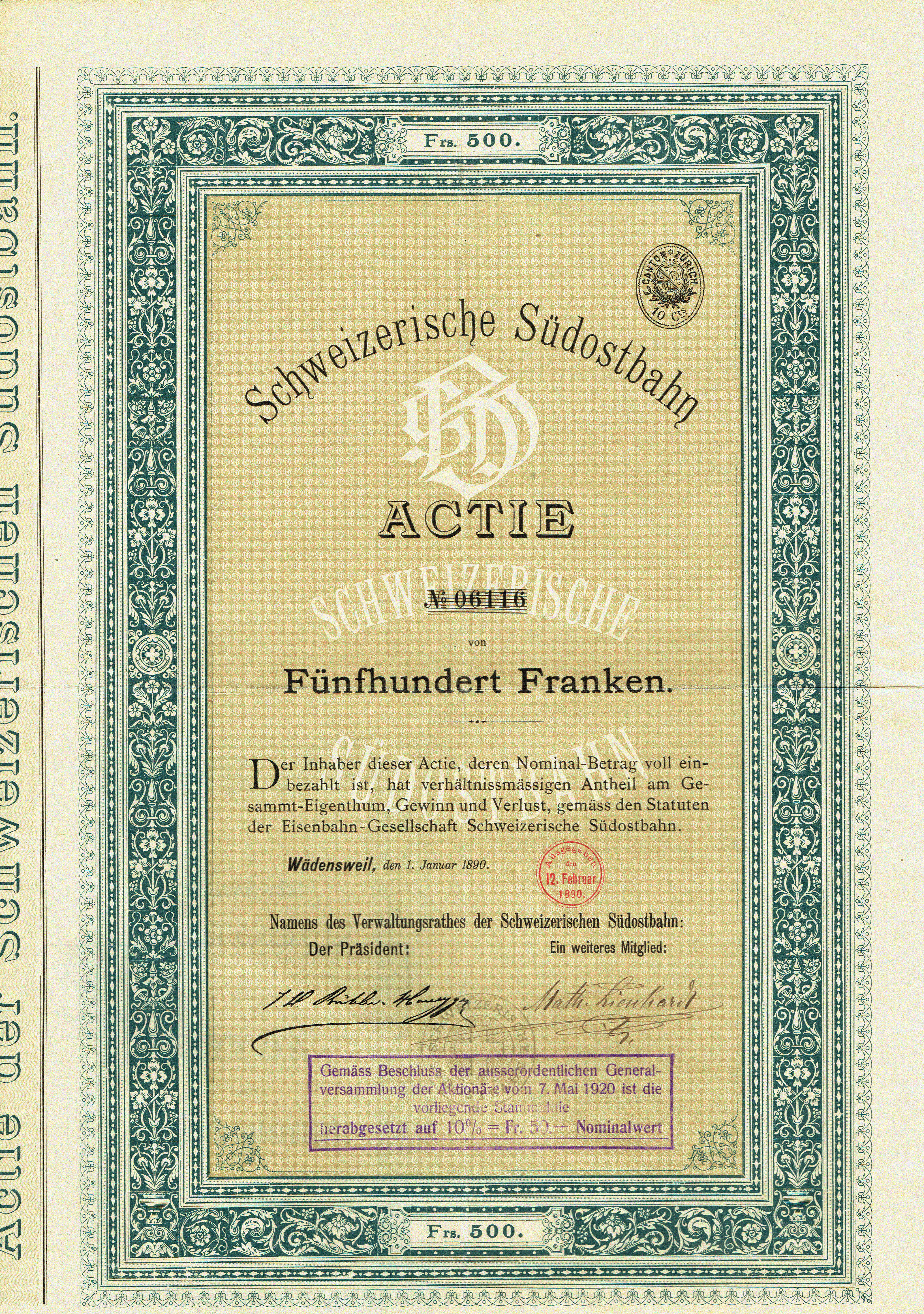 Share of the Schweizerische Südostbahn, issued 1. January 1890